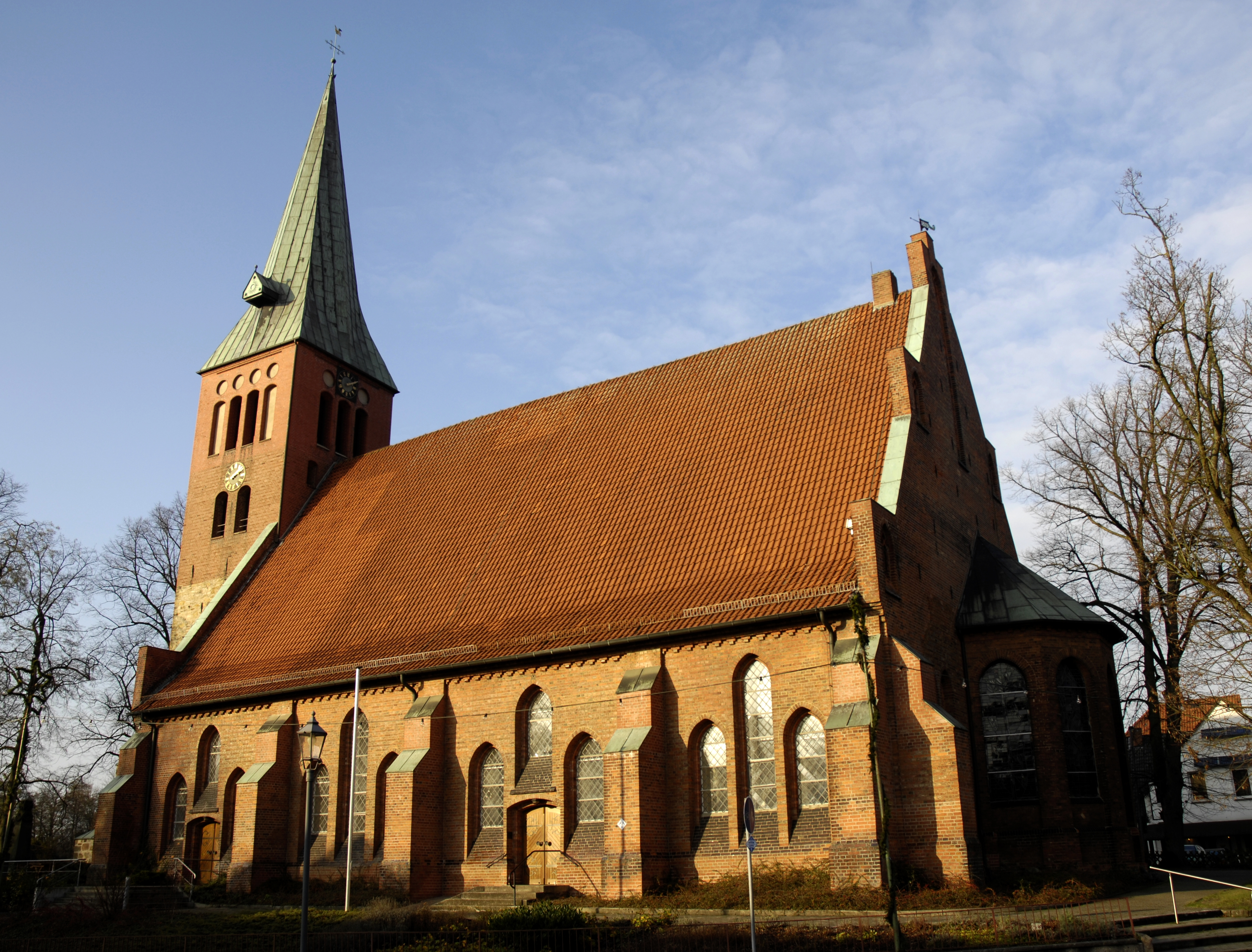 lutheran parish church in Sulingen